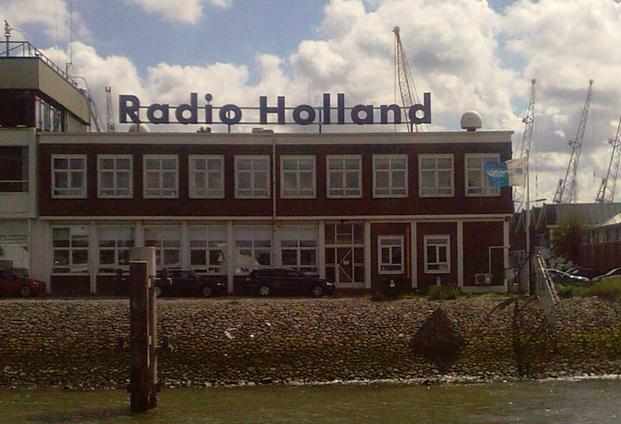 Radio Holland Netherlands in Rotterdam